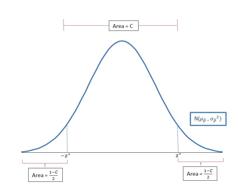 Bell curve for a sampling distribution of sample proportions